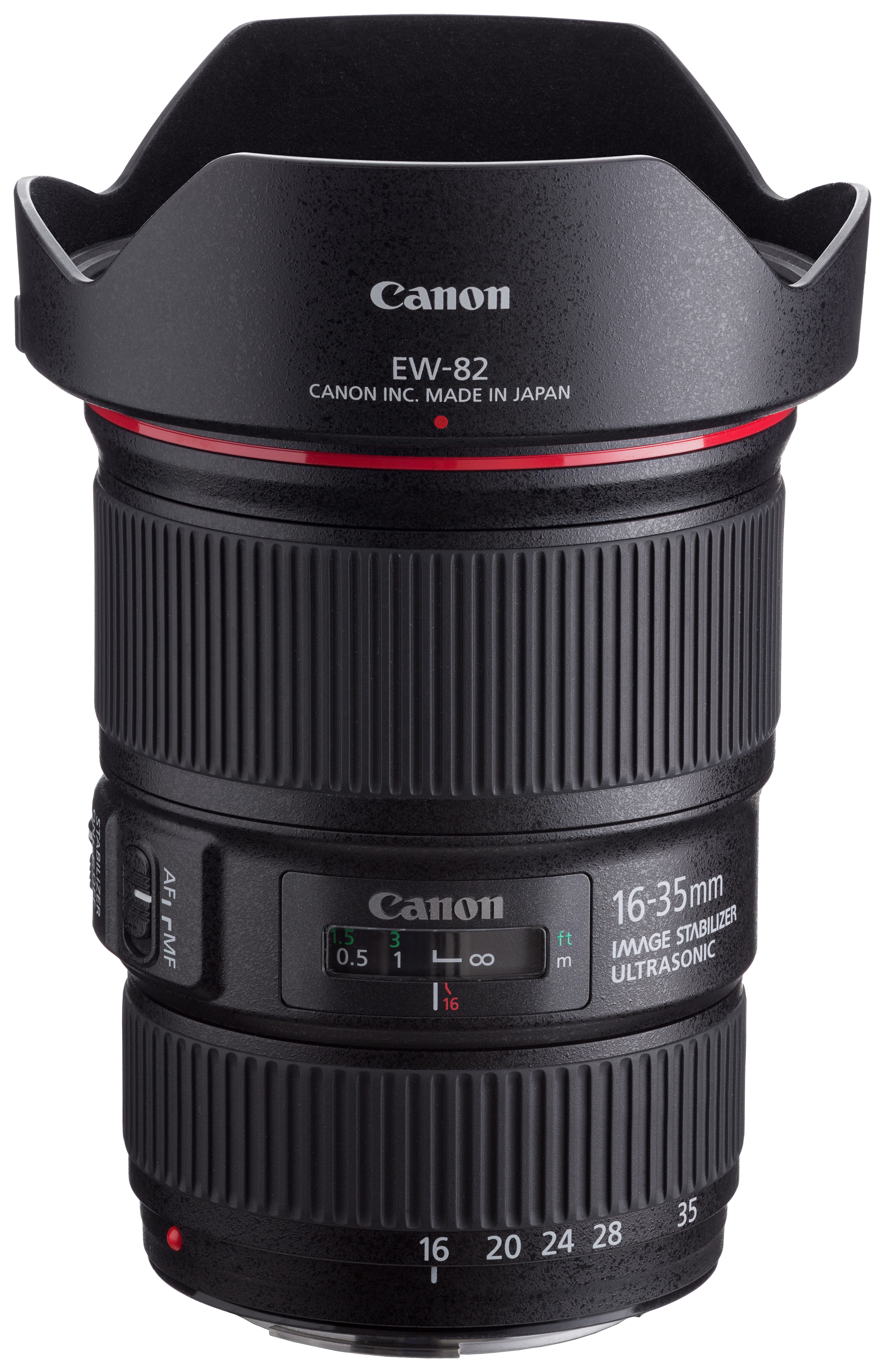 Canon EF 16-35mm f/4L IS USM DSLR lens.